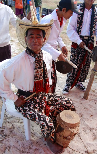 Drummer in Rote island, East Nusa Tenggara province, Indonesia